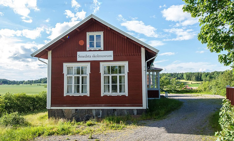 Smedsta skola från söder